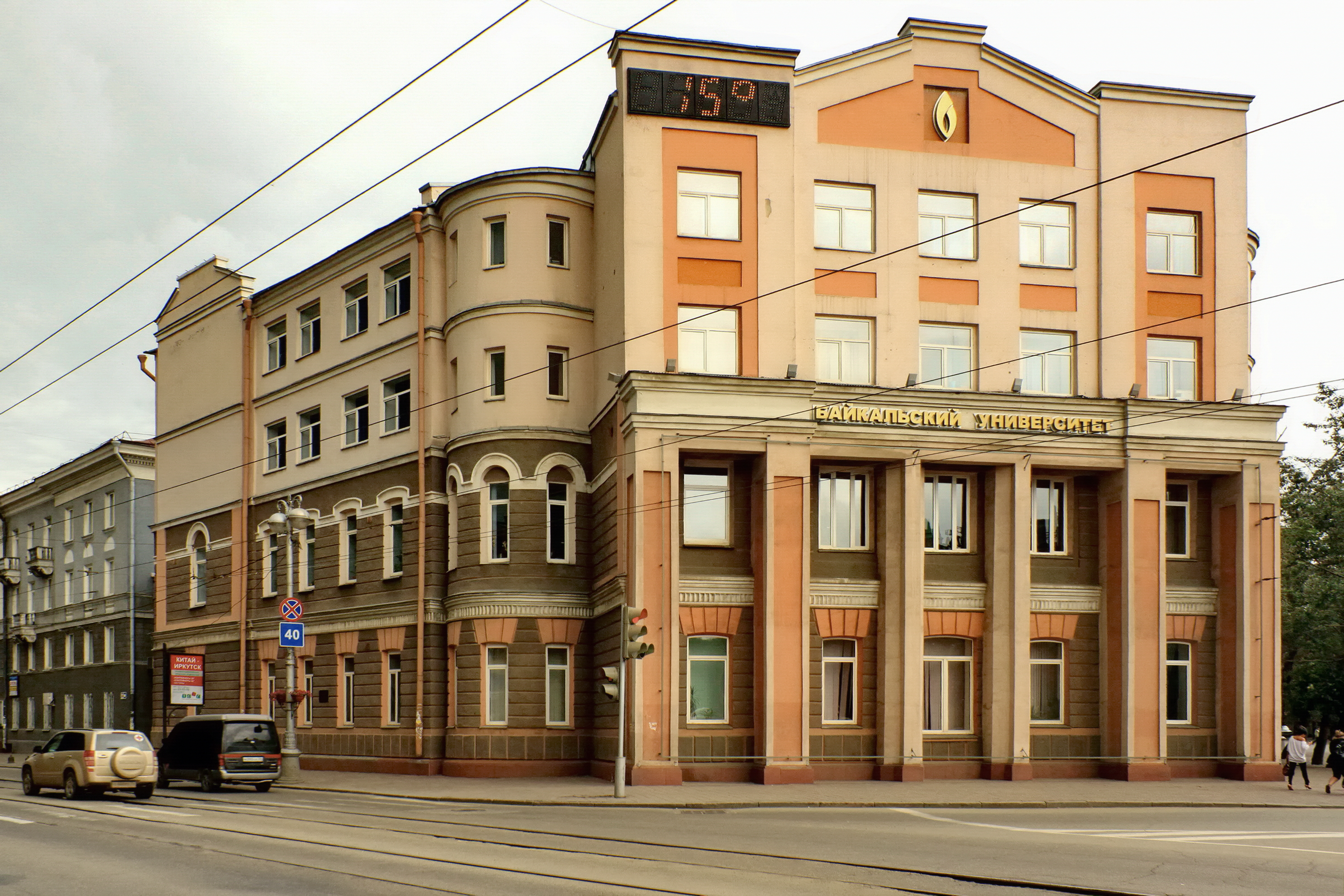 Baikal National University of Economics and Law. Irkutsk, Russia.